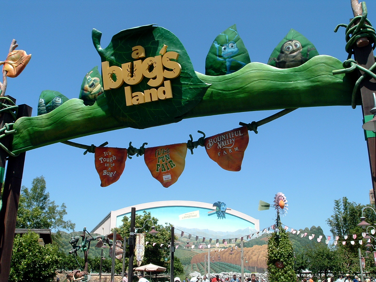 The entrance to a bug's land at Disney's California Adventure